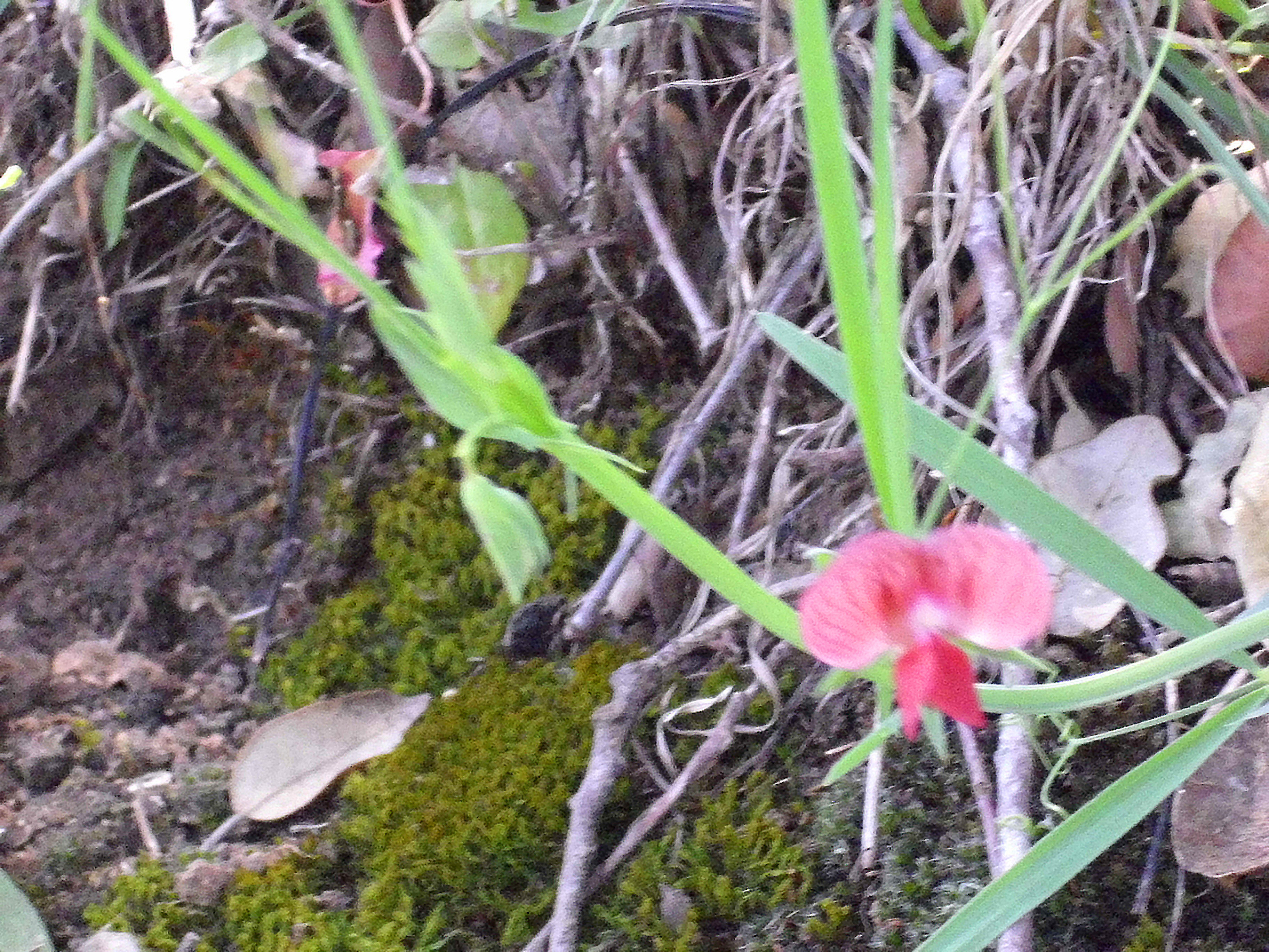 Lathyrus angulatus habit, Sierra Madrona, Spain